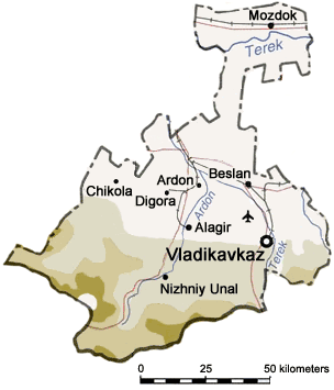 Map of North Ossetia, Russia (from mapping by US Dept of State - 2762 6-94 STATE (INR/GGI))